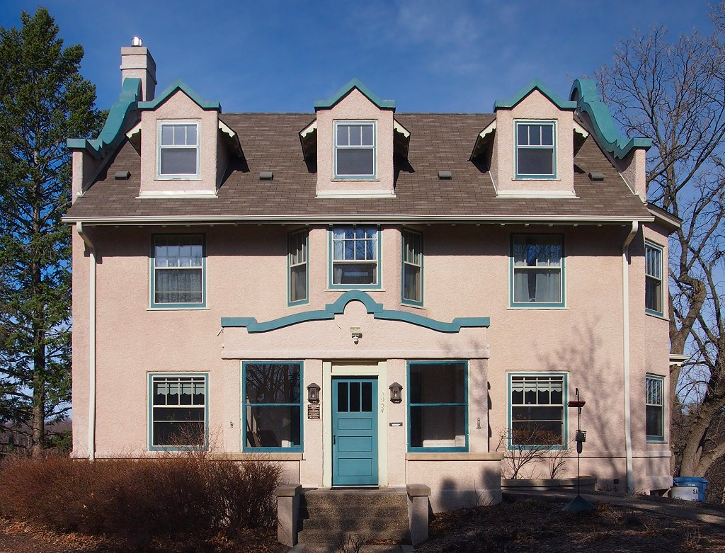 Theodore Wirth House–Administration Building, 3954 Bryant Ave S, Lyndale Farmstead Park, Minneapolis, Minnesota, USA. Viewed from the east.